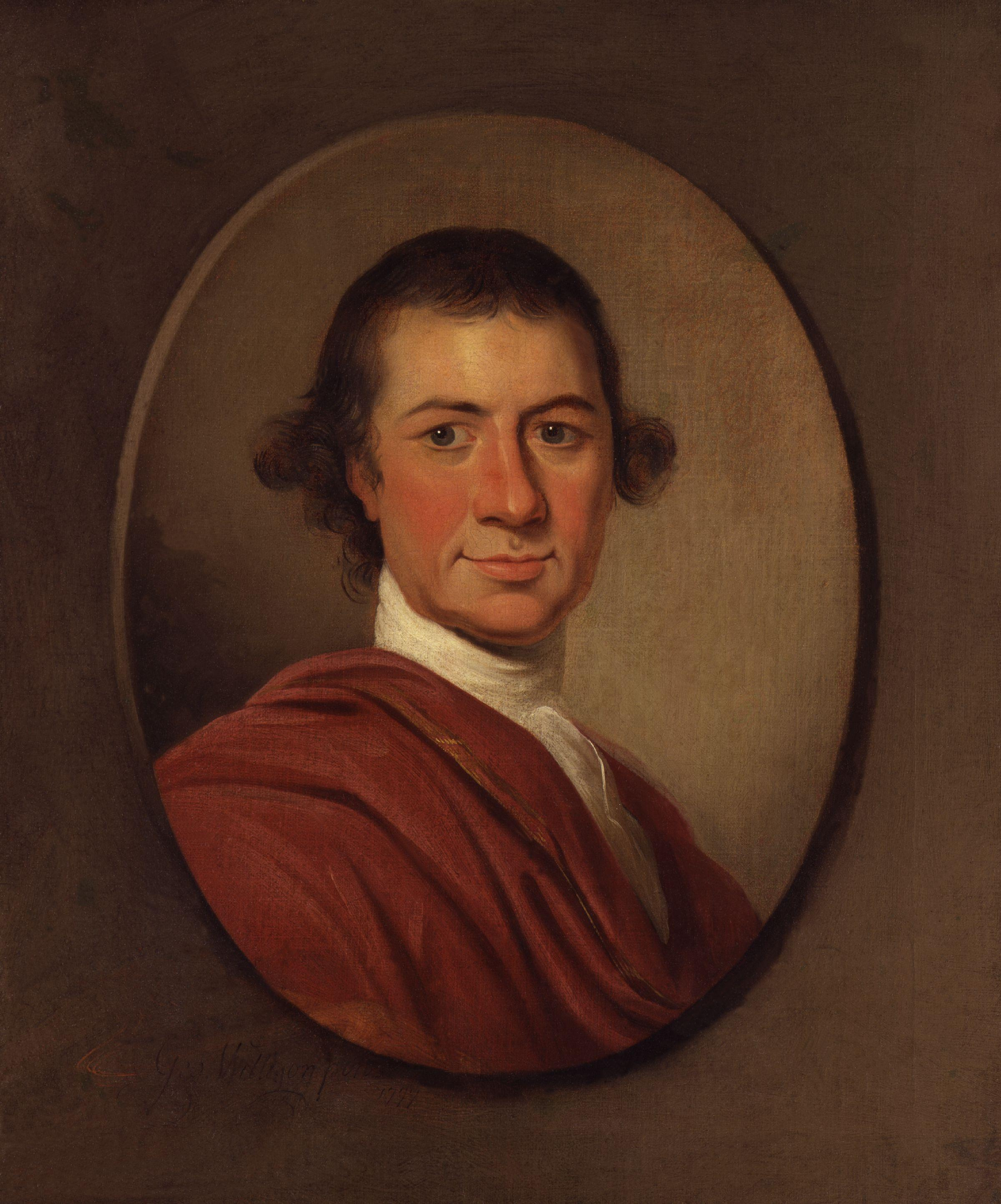 All images in this batch have been confirmed as author died before 1939 according to the official death date listed by the NPG.